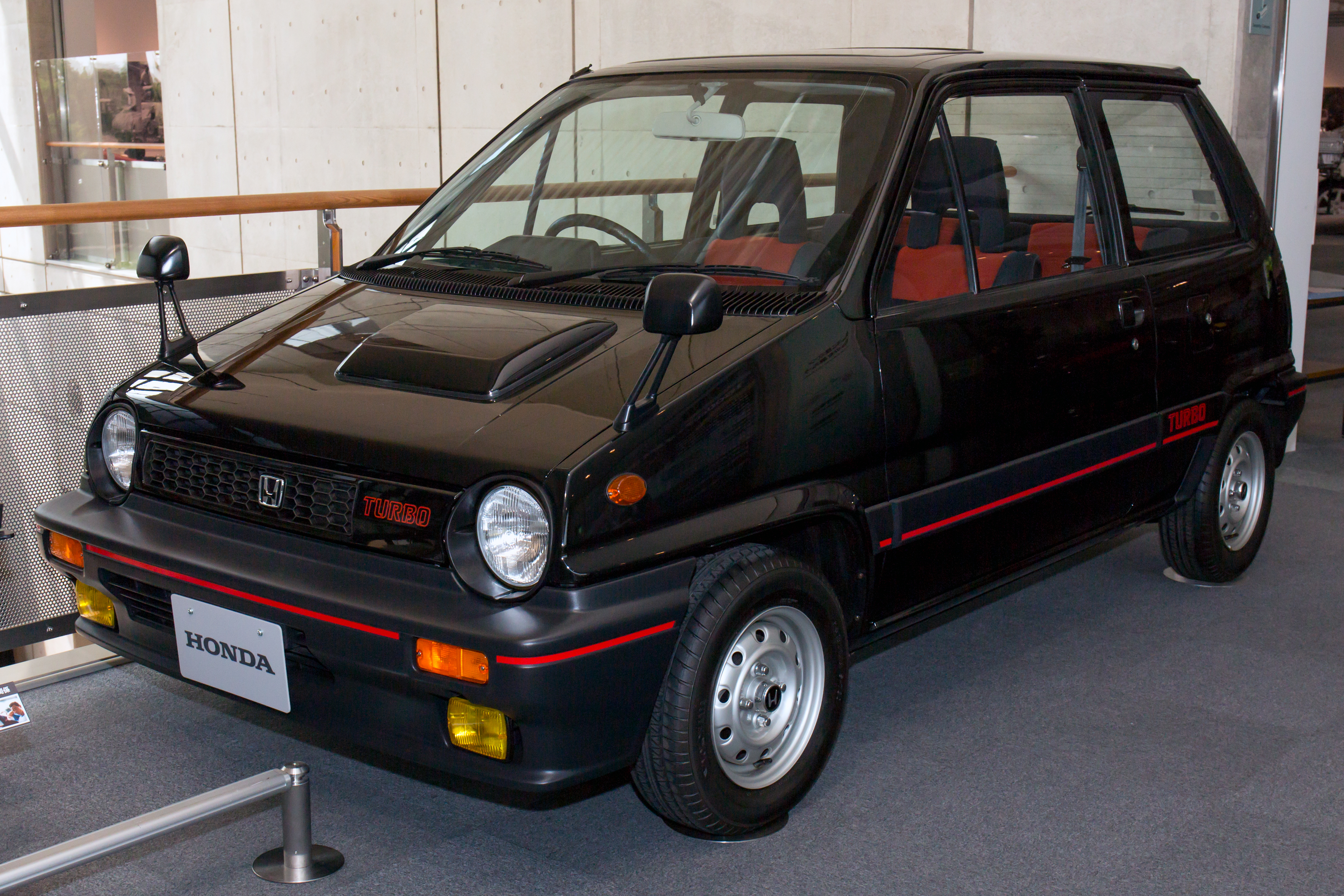 1983 Honda City Turbo